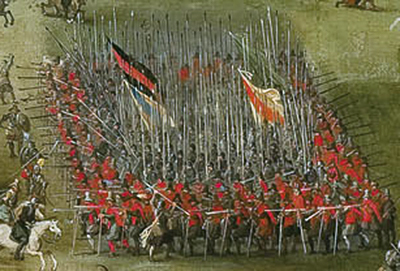 Detail of the painting The Battle of Kircholm in 1605 between Poles and Swedes, painted by Peter Snayers.